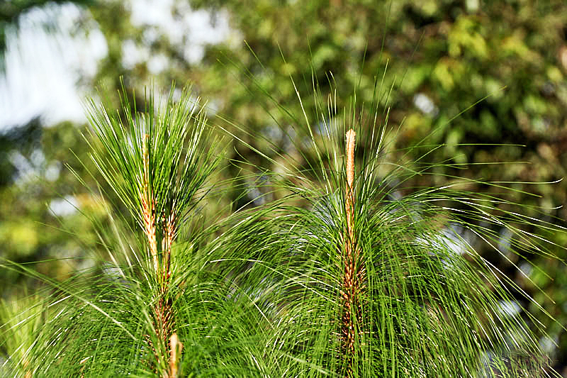 Chir Pine Pinus roxburghii in Kolkata, West Bengal, India.